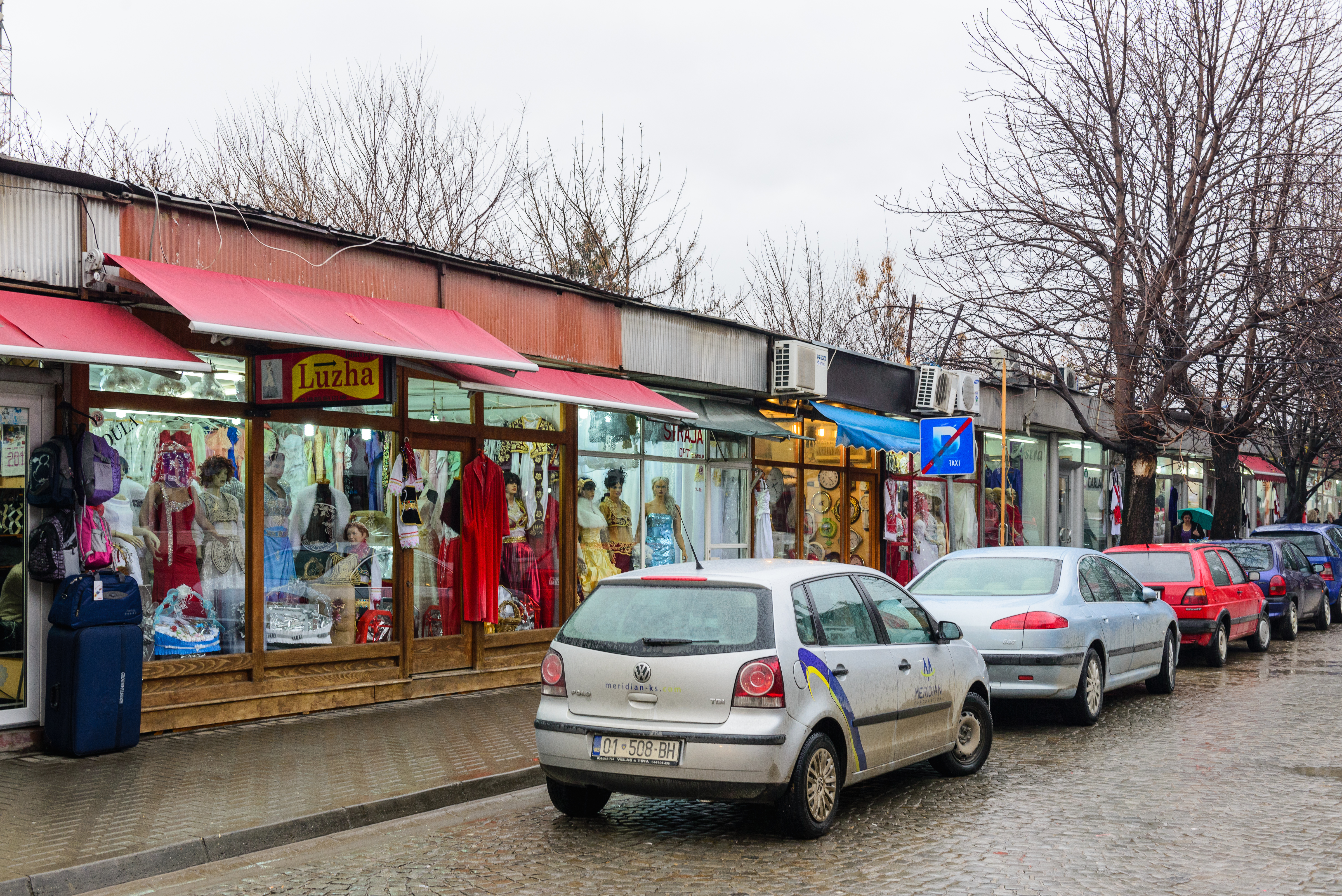 Pristina Bazaar.